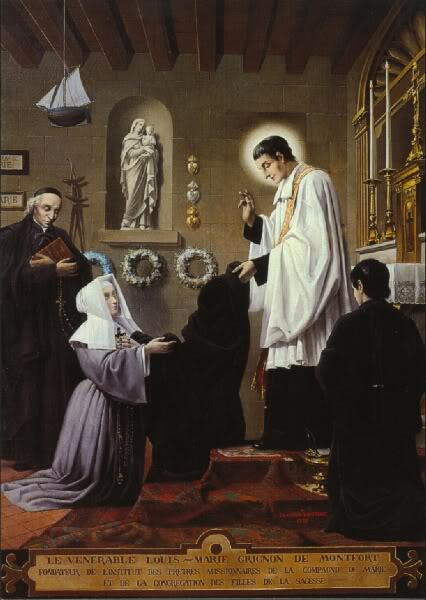 Louis-Marie de Montfort with Marie-Louise Trichet, in the foundation of the Daughter of the Wisdom congregation